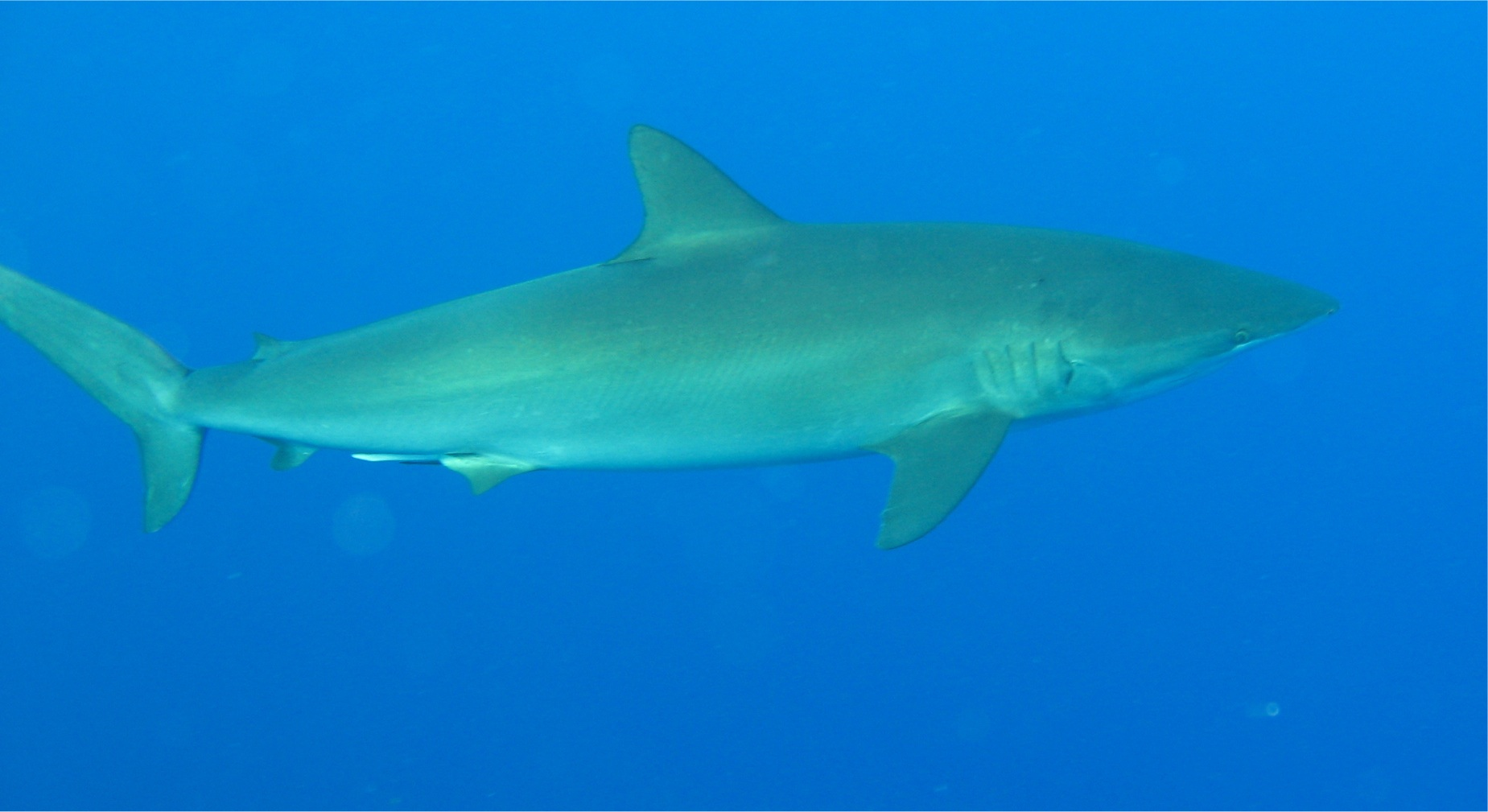 The Silky Shark.